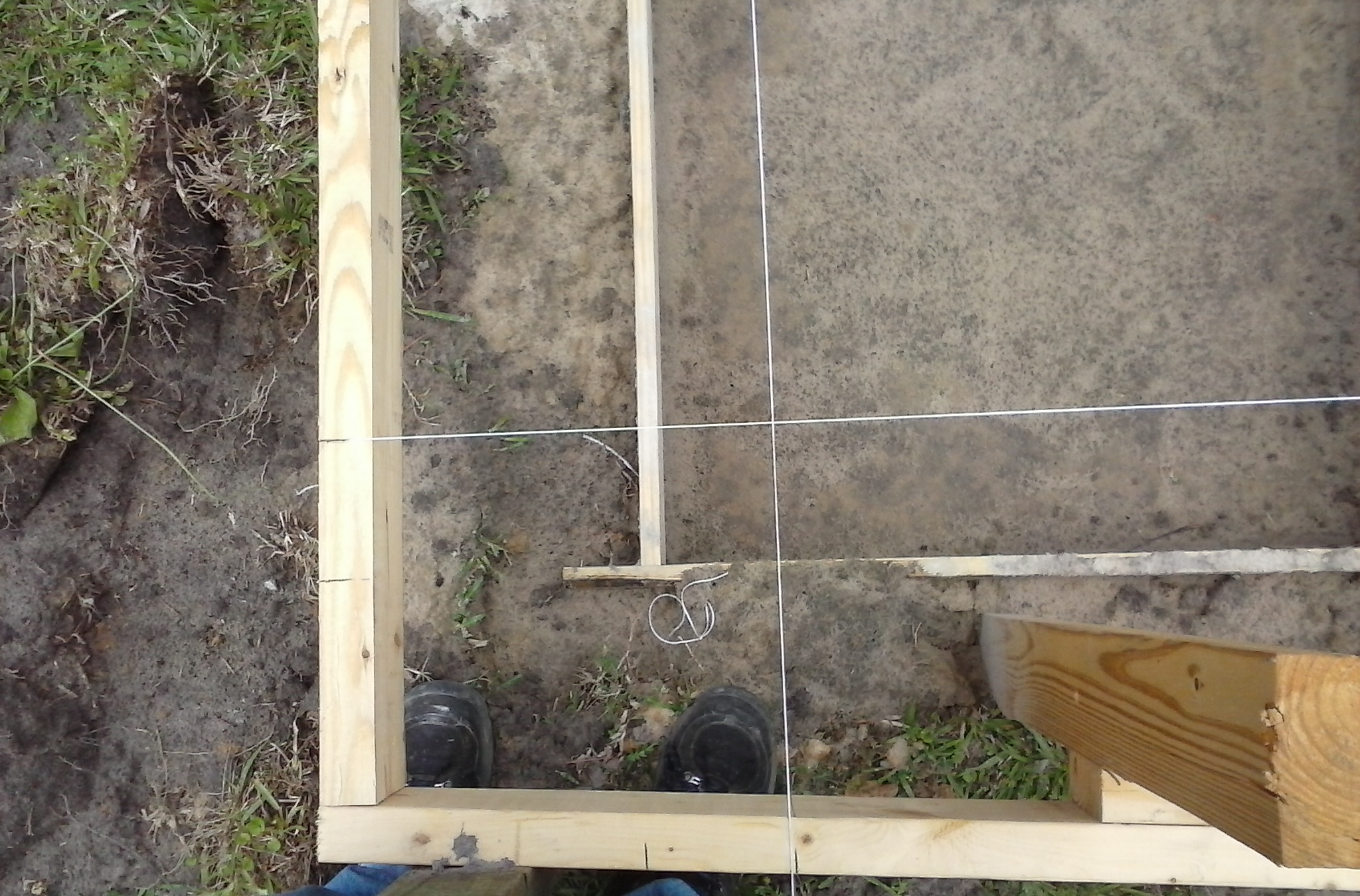 Strings supported by batter boards cross at corner of intended foundation. Footer below is 4"beyond.